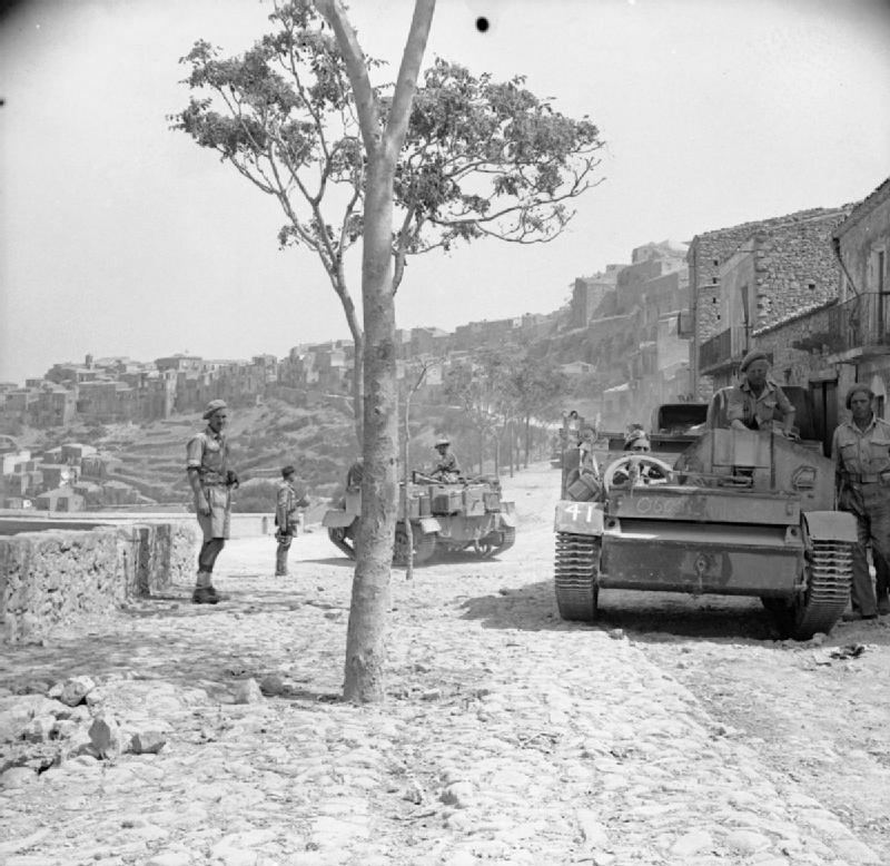 The British Army in Sicily 1943 Universal carriers of the 6th Inniskillings, 38th Irish Brigade, 78th Division in Centuripe, August 1943.